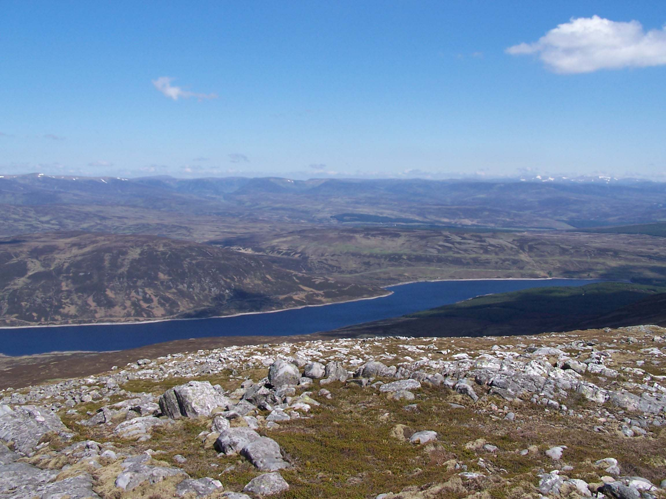 A view of the hydroelectric reservoir, Loch Errochty in Perth and Kinross, Scotland from the mountain Beinn a' Chuallaich.